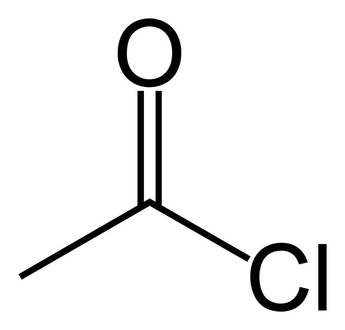 Skeletal formula of acetyl chloride (C2H3ClO)